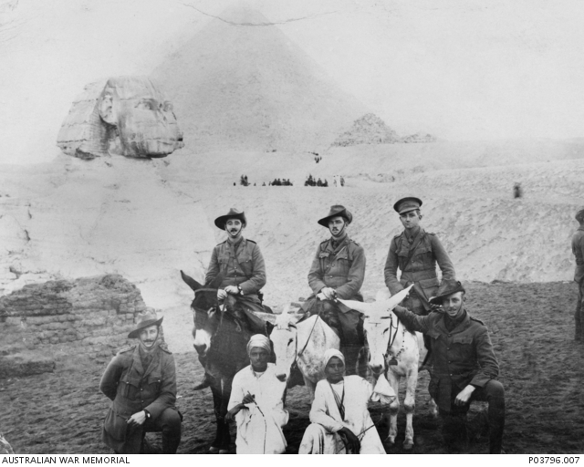 Officers from the 2nd Infantry Battalion, Australian Imperial Force, at Giza in December 1914. The officers are (left to right): CAPT Arthur Borlase Stevens; LT Leslie James Morshead; CAPT Harold Leslie Nash; 2LT Eric Martin Solling and MAJ Clifford Russell Richardson.